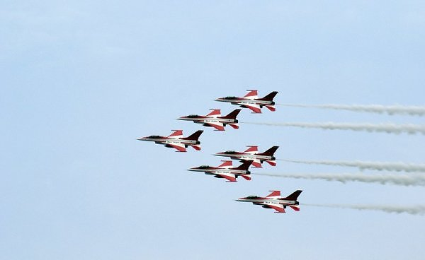 The RSAF Black Knights, the official aerobatics team of the Republic of Singapore Air Force (RSAF), performing in their F-16C Fighting Falcons at the Singapore Airshow 2008.